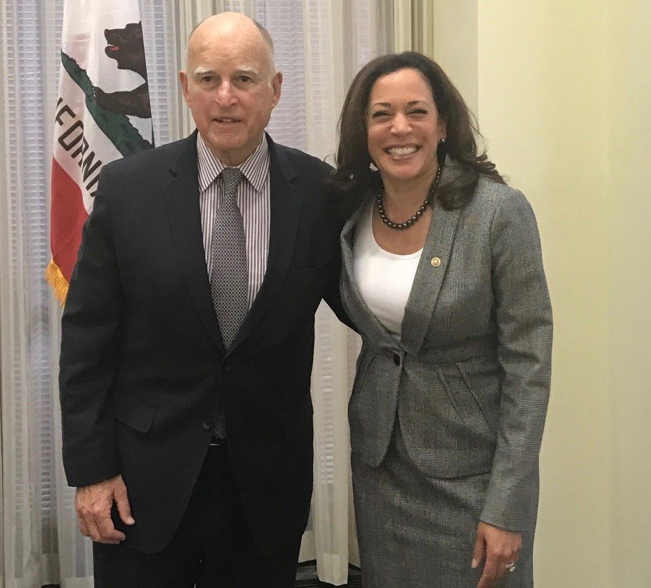 Great to have my friend @JerryBrownGov in D.C. today to talk about pressing California issues.